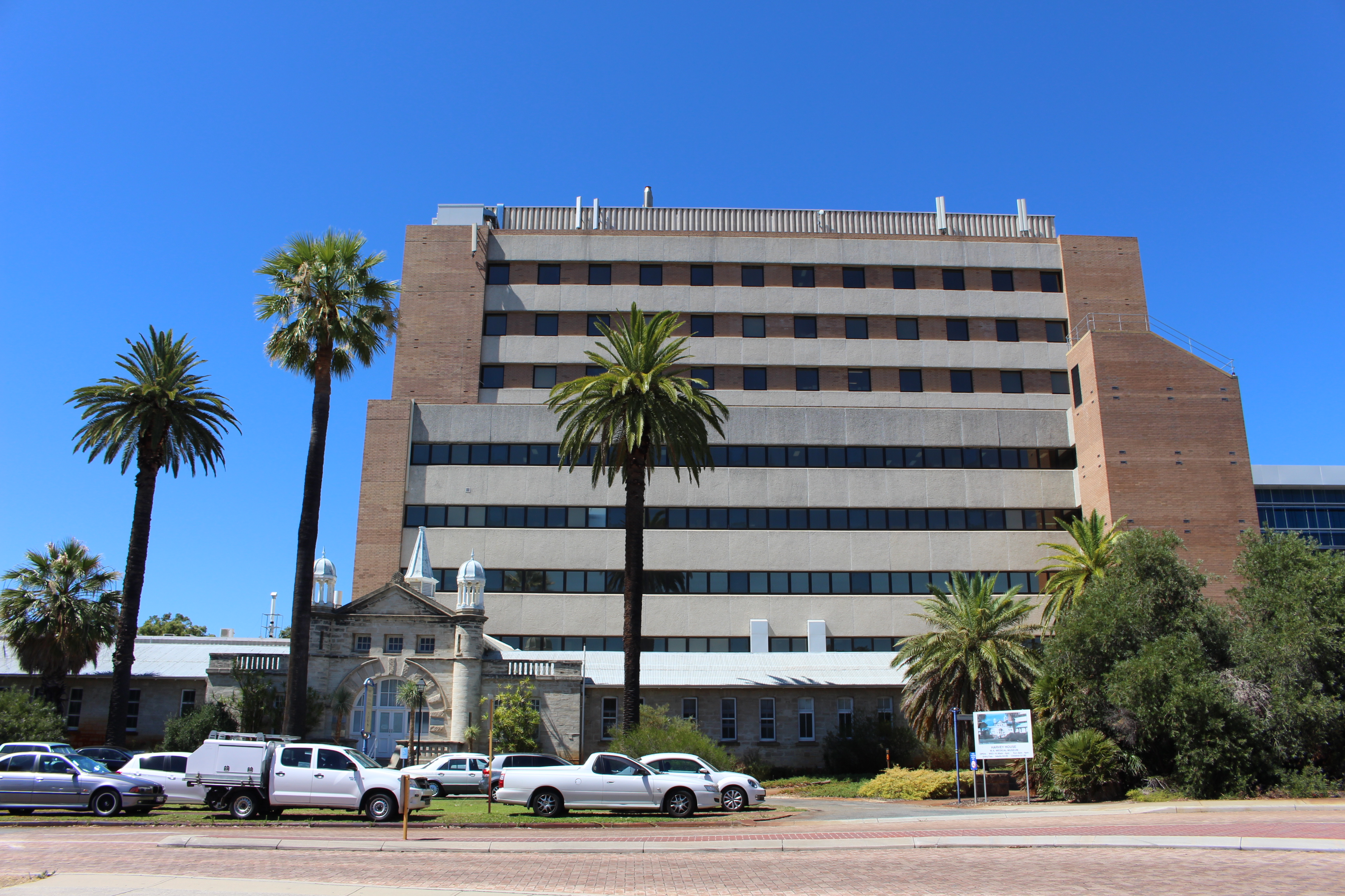 Harvey House (front) and Block B (back) buildings of King Edward Memorial Hospital for Women in Subiaco, Western Australia. Photographed from corner of Barker Rd and Railway Rd.